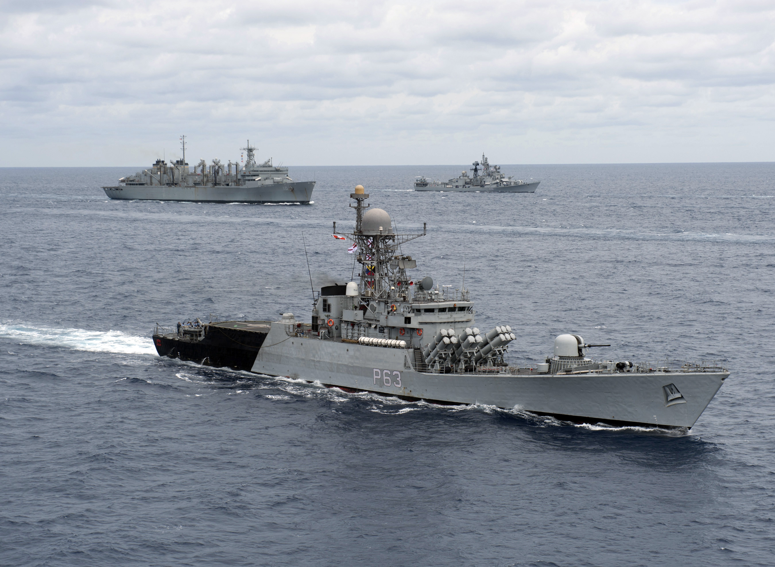 BAY OF BENGAL (April 14, 2012) The Indian navy guided-missile corvette INS Kulish (P63) is underway with U.S. and Indian navy ships during Exercise Malabar 2012. Malabar is a scheduled naval training exercise conducted to advance multinational maritime relationships and mutual security. (U.S. Navy photo by Mass Communication Specialist 2nd Class James R. Evans/Released)